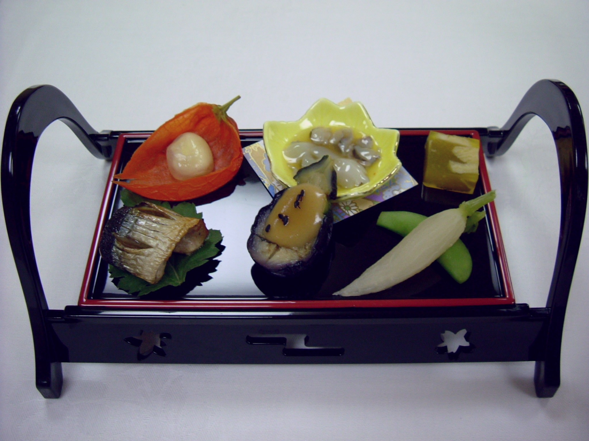 Zensai, Japanese hors d'oeuvre